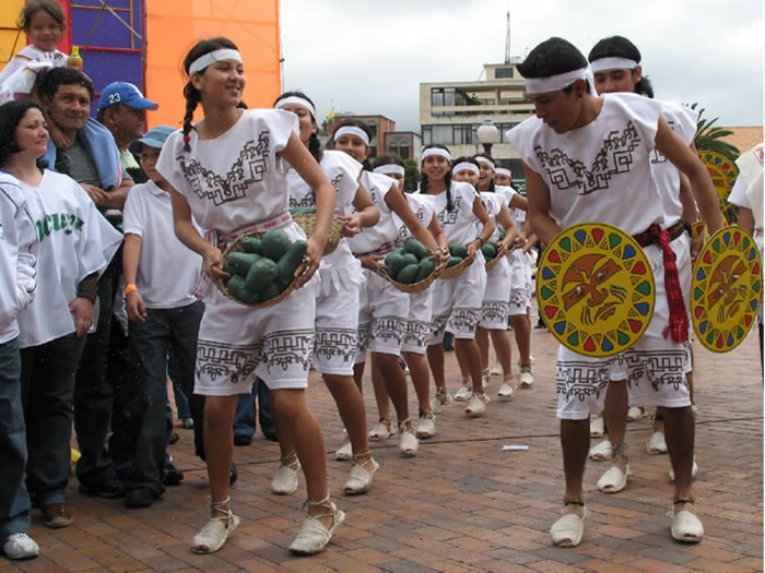 Young dancers representing Ancuya Community at the Colonia's Parade Day. Blacks and Whites Pasto Carnival, 2nd of january 2007.